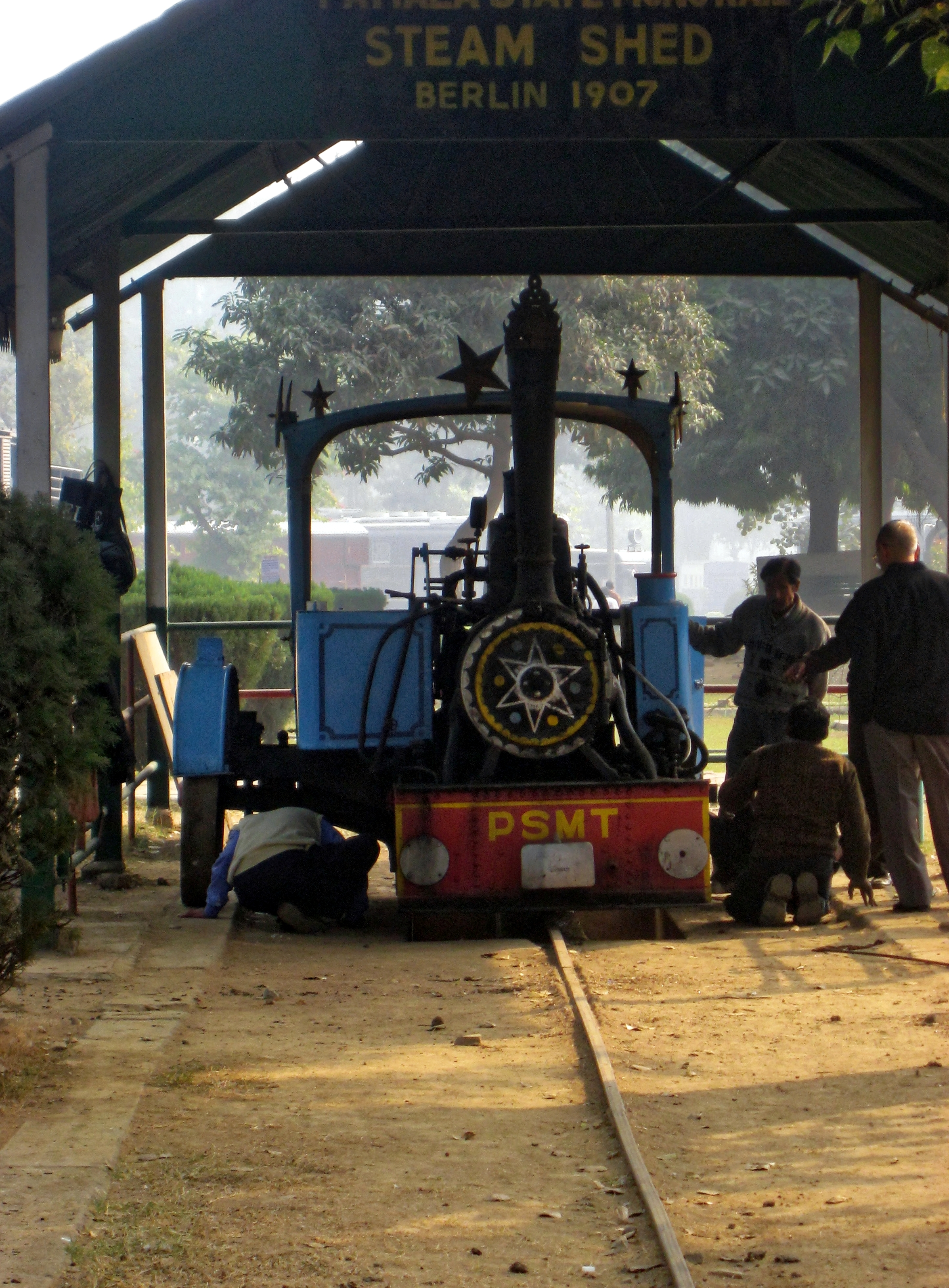 Monorail steam train at National Rail Museum, New Delhi. Has one wheel to stop it falling over. The idea did not catch on